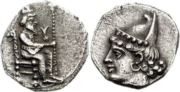 CILICIA, Myriandros. Mazaios. Satrap of Cilicia, 361-0-334 BCE